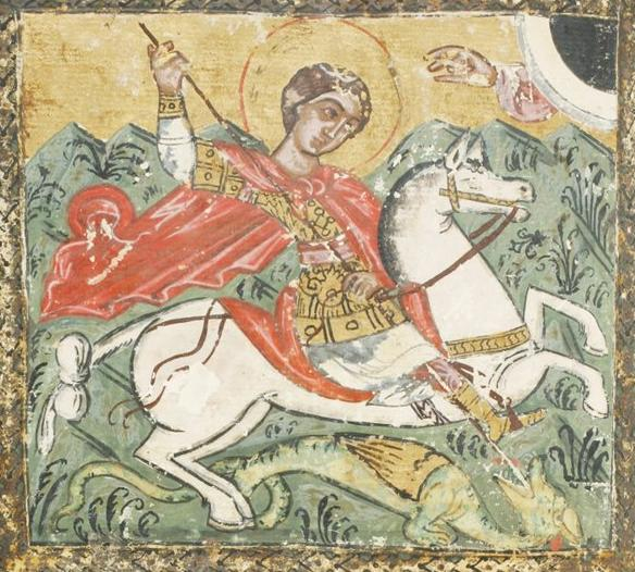 Saint George. Georgian icon of middle ages.